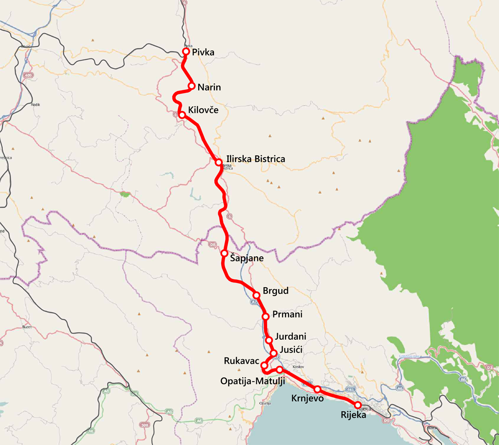 Map of the railway line Pivka–Rijeka.